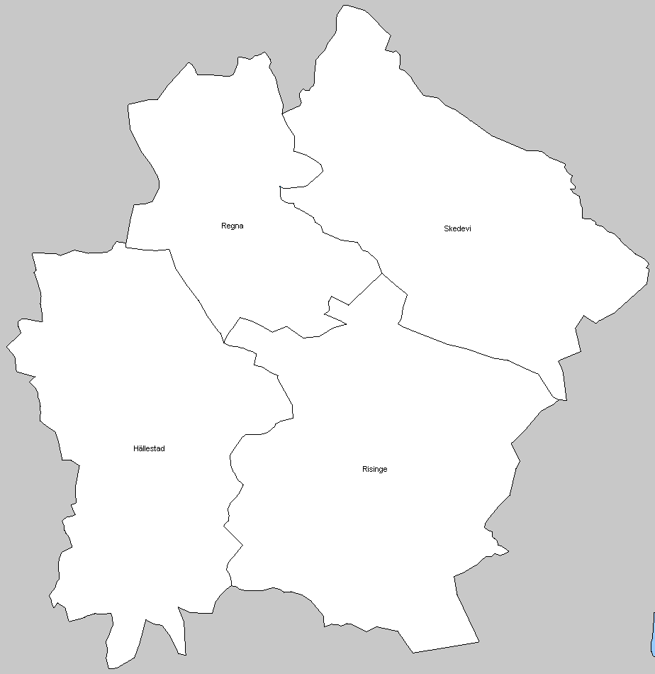 Parishes in Finspång's municipality